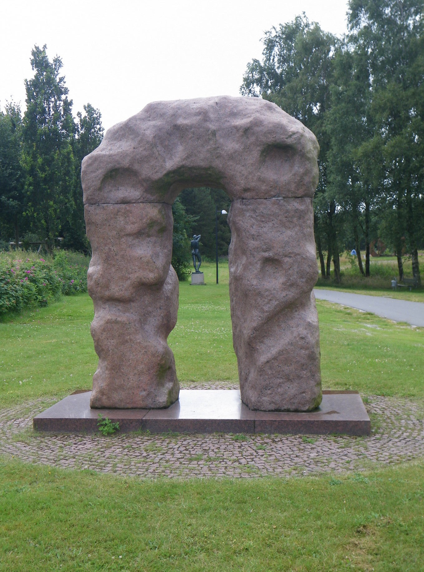 Niels Peter Bruun Nielsen, Entrance, 1991